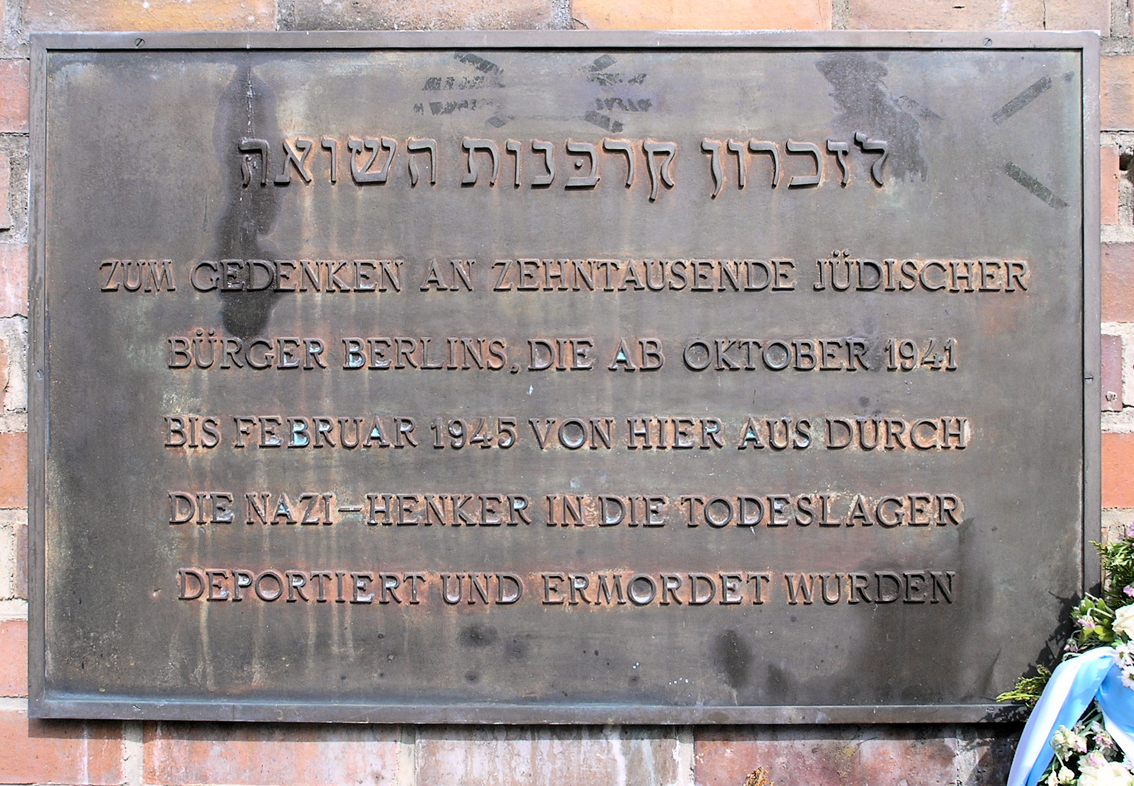 Memorial plaque, Judendeportation, Am Bahnhof Grunewald , Berlin-Grunewald, Germany Koordinate:52°29′20″N 13°15′52″E / 52.48889°N 13.26444°E